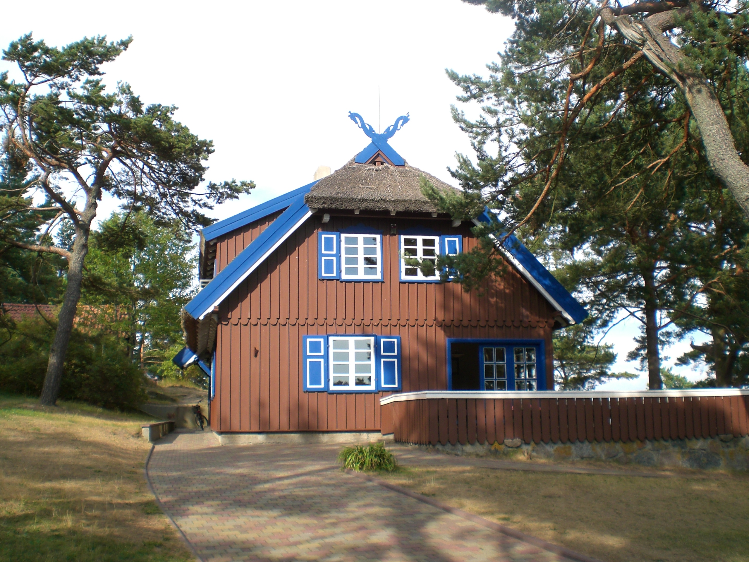 Nida on the Kurischen Nehrung in Lithuania